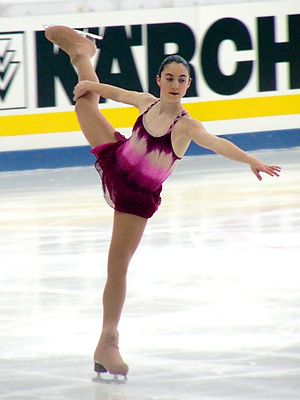 Megan Allely performs a spiral during her free skate at the 2004 Junior Grand Prix event in Germany.